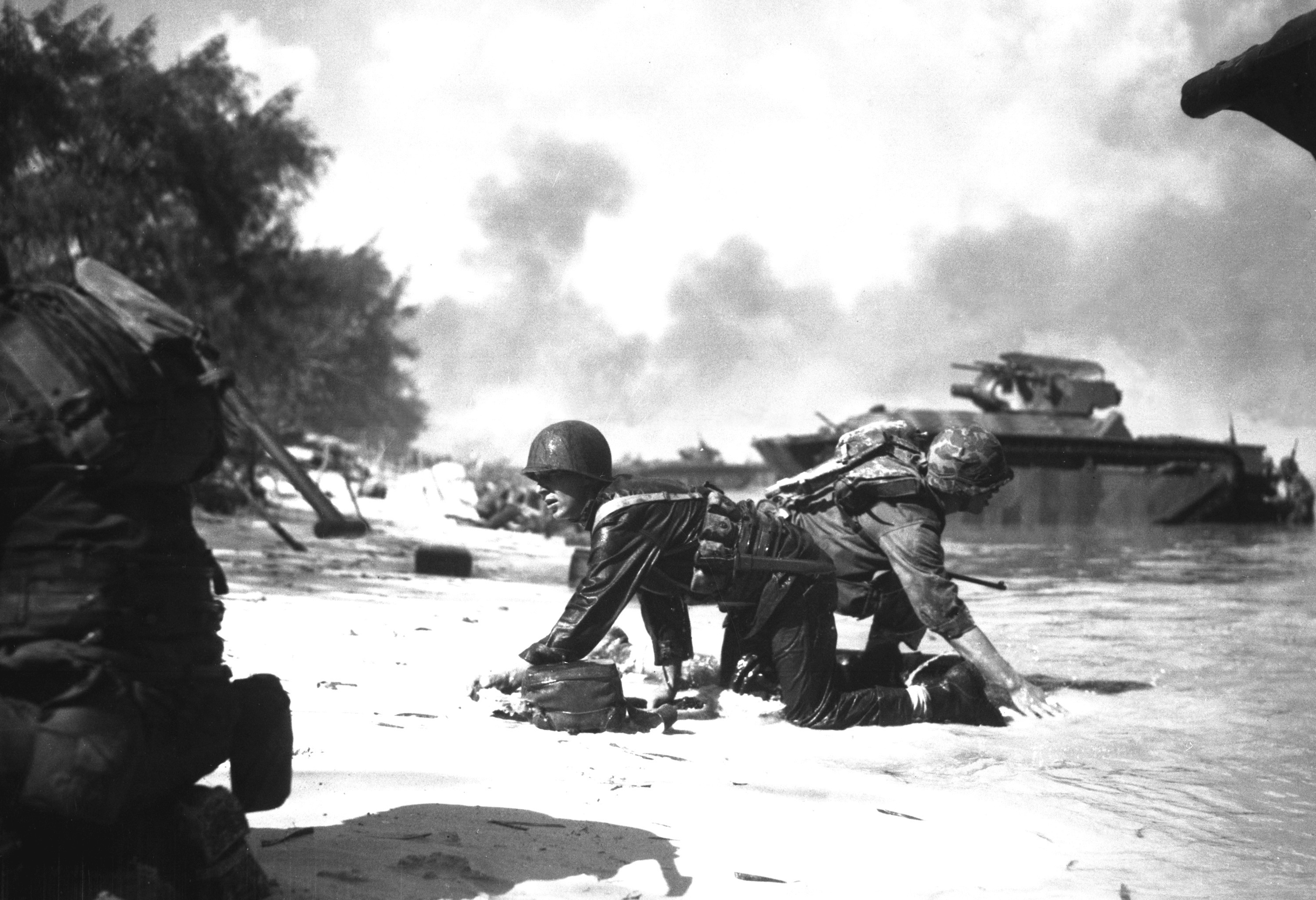 It appears that one Marine is relieving another on the beach at Saipan but they are really crawling under enemy fire, to their assigned positions. June 1944. Sgt. James Burns. (Marine Corps) Exact Date Shot Unknown NARA FILE #: 127-GR-113-83260 WAR & CONFLICT BOOK #: 1174